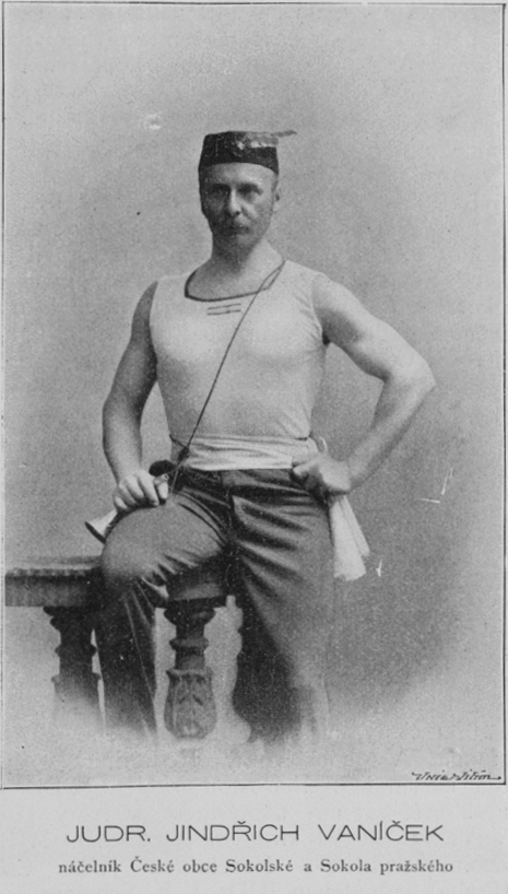 Portrait of Jindřich Vaníček (1862-1934), long-term chief (náčelník) of Czech Sokol.